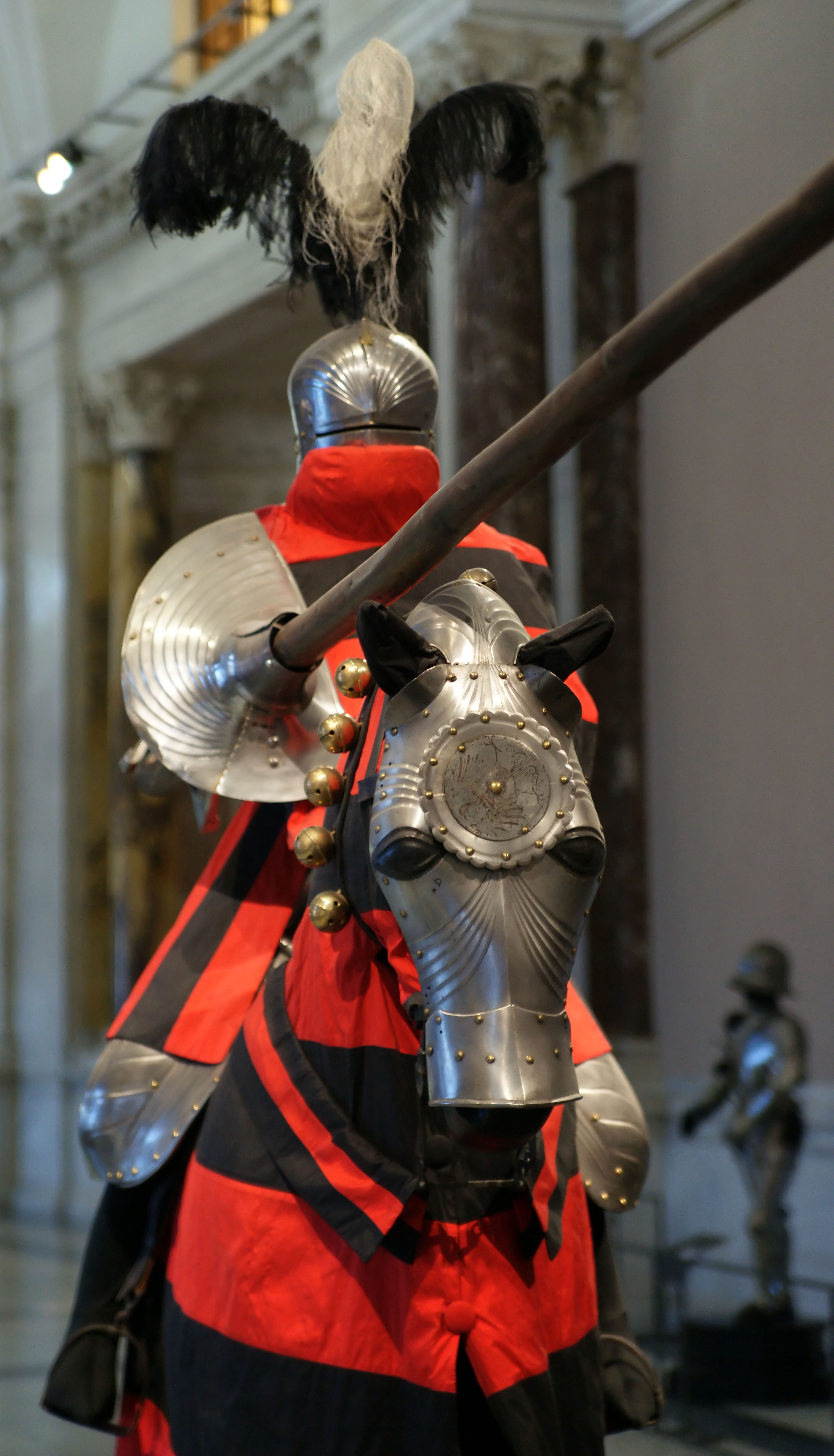 Racing armour of Emperor Maximilian I, around 1485/90